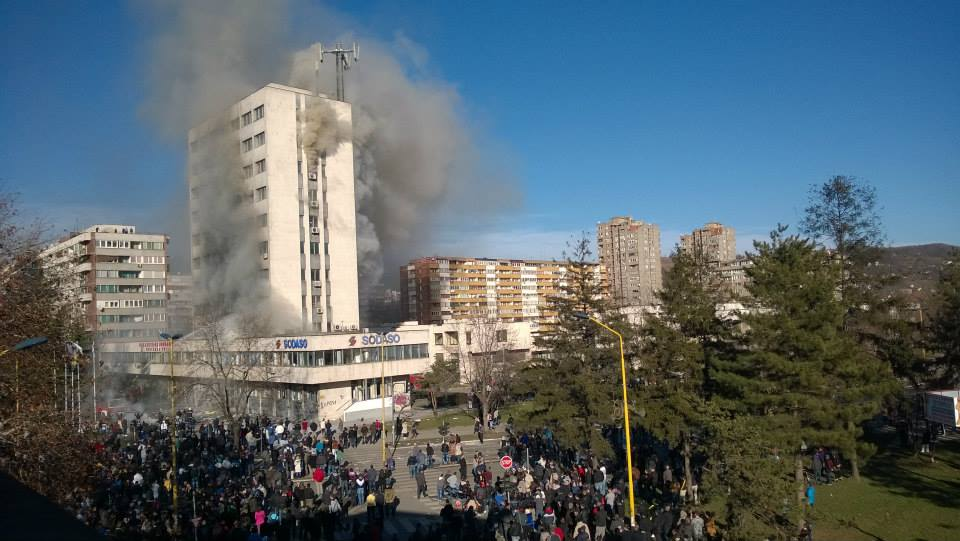 Photo Taken by Samsung Ace II on 8.02.2014 showing the Tuzla Canton Government Building in flames.